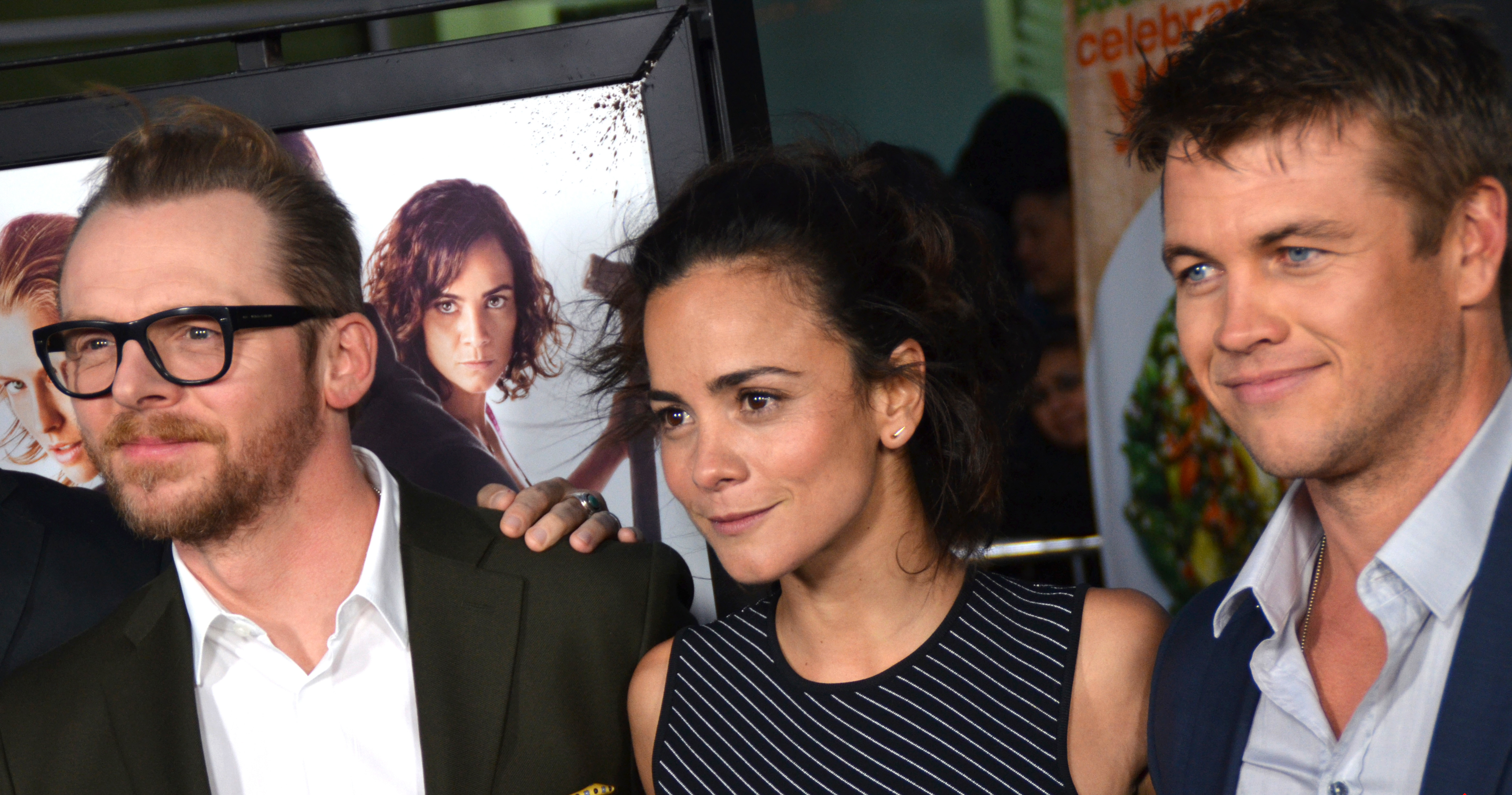 Actors Simon Pegg, Alice Braga and Luke Hemsworth at the Los Angeles Premiere of "Kill Me Three Times" on March 24, 2015